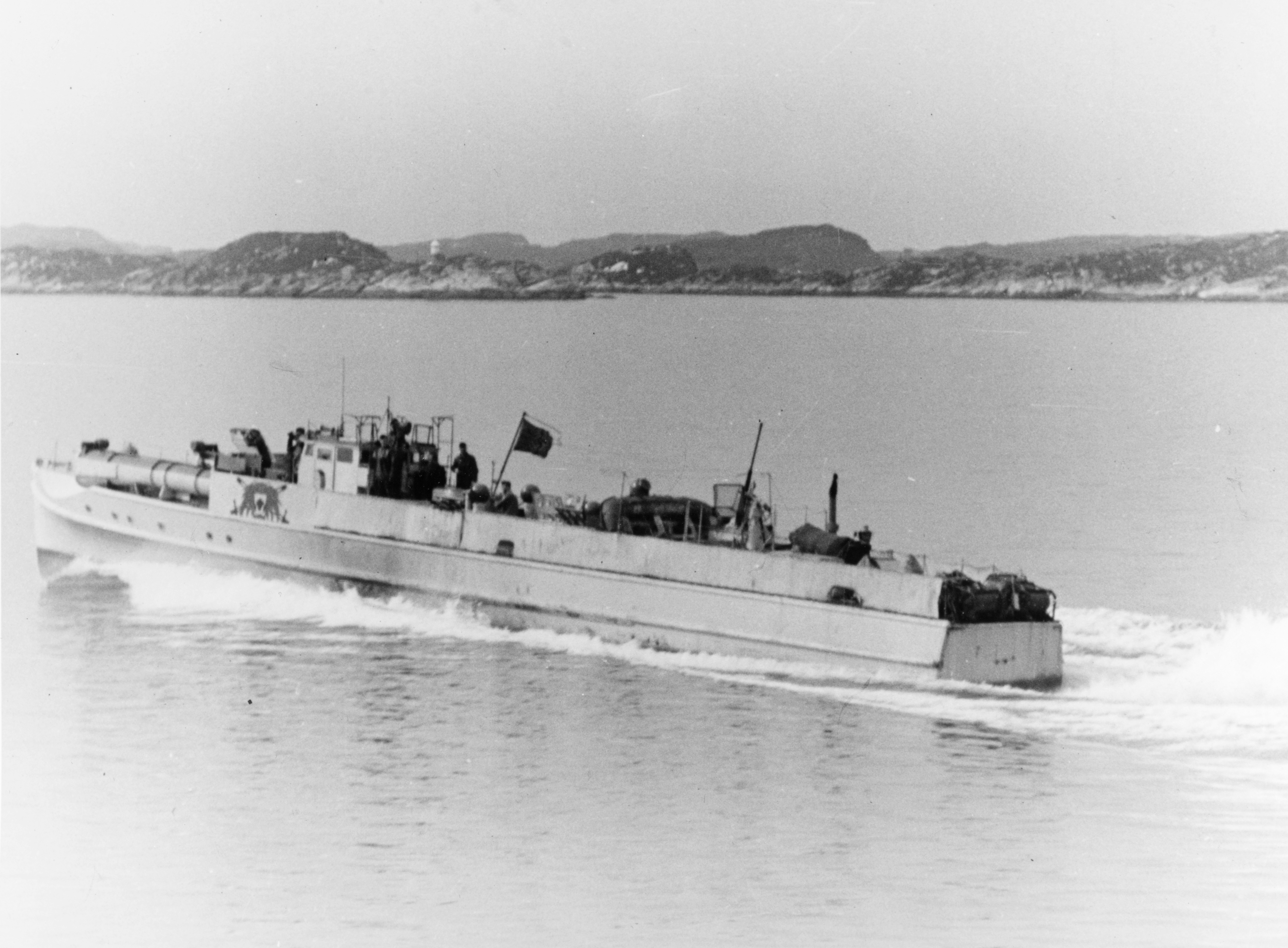 A German motor torpedo boat escorting a minelayer during the Second World War off the Norwegian coast. The insignia shown was worn by S 16 in 1941. S 16 survived the war and was transferred to the Soviet Union in 1945.